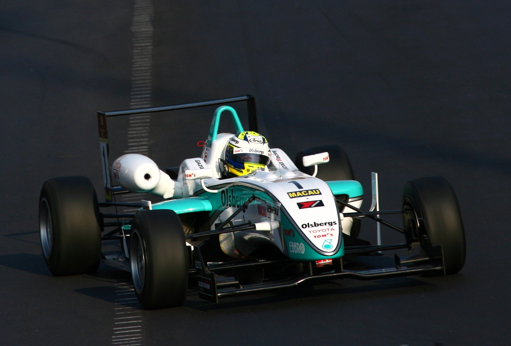 Marcus Ericsson of Sweden driving a TOM'S F3 car at the 2009 Macau Grand Prix.